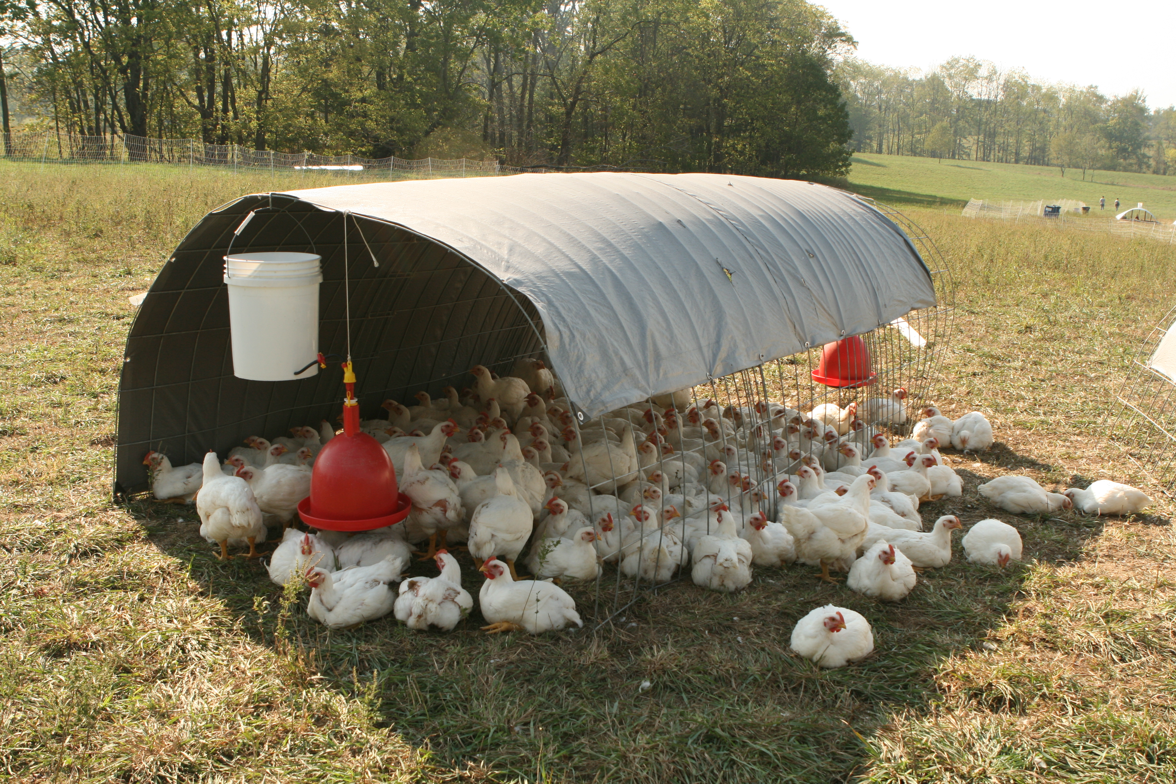 Free range chickens seek shade in their simple coop.